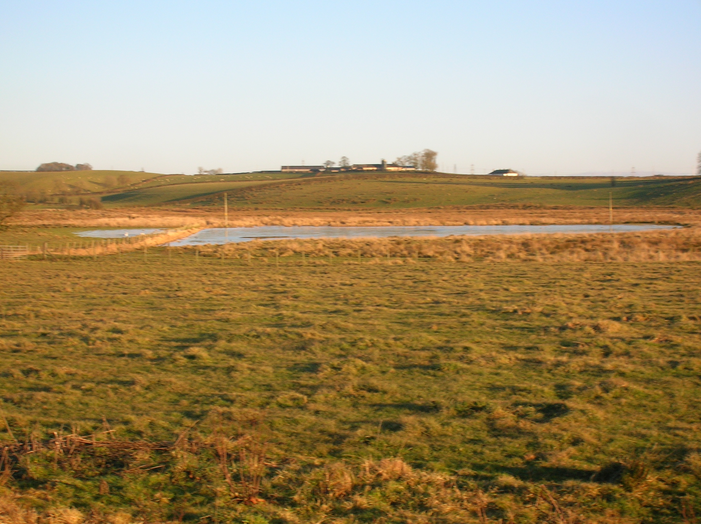 Looking towards Buistonend Farm across Buiston Loch's site, Kilmaurs, East Ayrshire, Scotland.